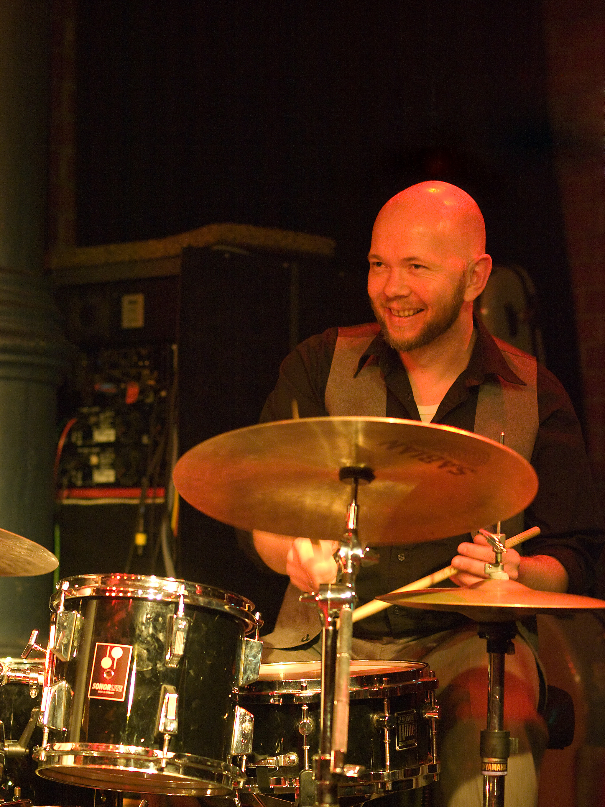 Freddy Wike, Jazz drummer, Picture taken in Jazz Club Unterfahrt, Munich/Bavaria